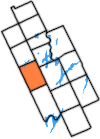 Map of Victoria County (Now city of Kawartha Lakes), with former township of Eldon highlighted in orange.